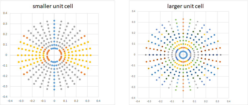 The diffraction pattern from a given feature layout varies with illumination, corresponding to different locations in the pupil. These are represented by the different colors in the example. The percentages indicate how much of the dose goes into the particular diffraction pattern. Larger pitches result in more diffraction patterns (ref.: Stochastic Considerations of Multi-Point Source Illumination in Lithography).